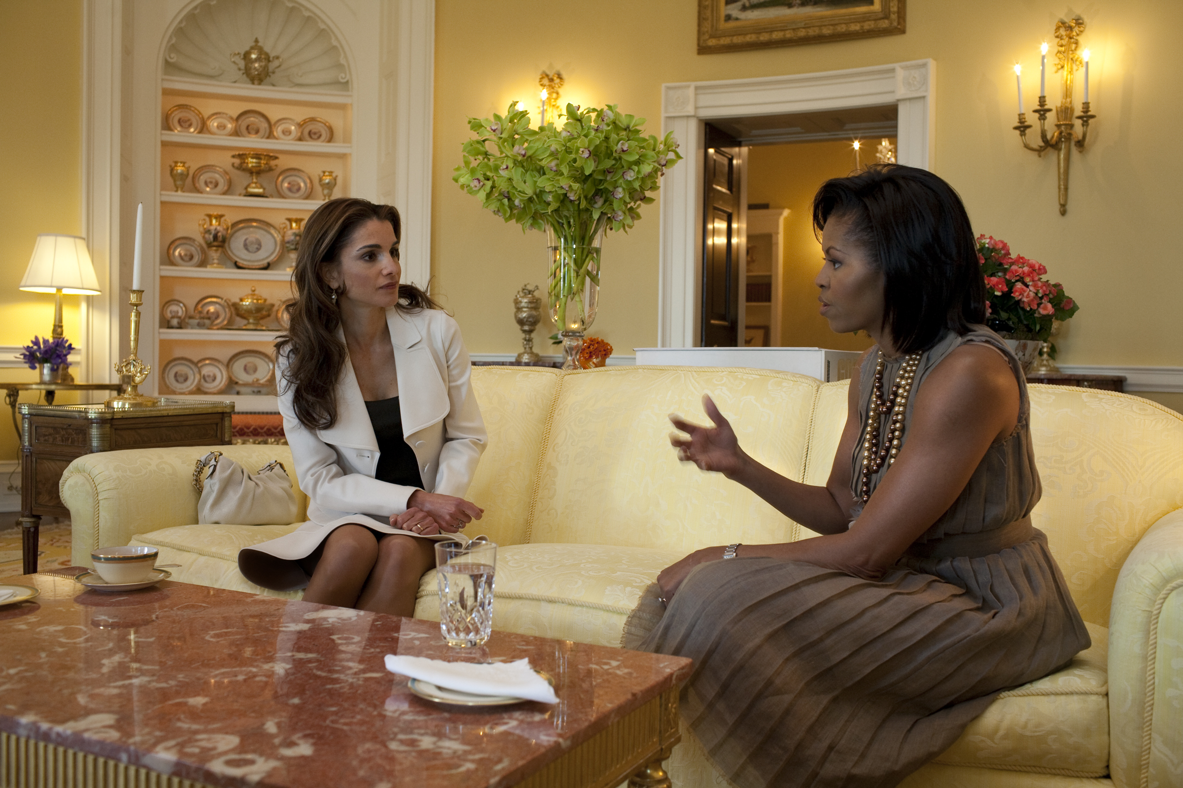 First Lady Michelle Obama hosts Jordan's Queen Rania in the Yellow Oval Room in the White House Residence.